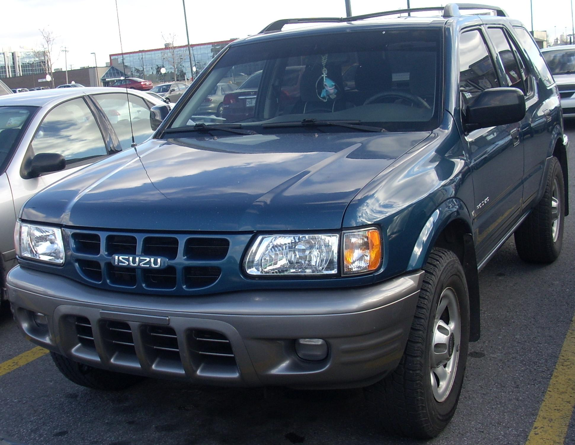 2001-2003 Isuzu Rodeo photographed in Montreal, Quebec, Canada.